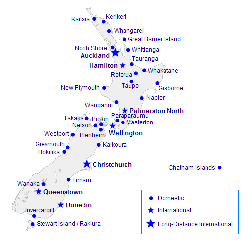 Map showing various airports in New Zealand. State January 2006.